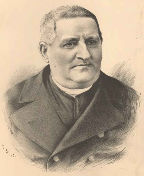 Boleslav Jablonský, Czech priest and poet.